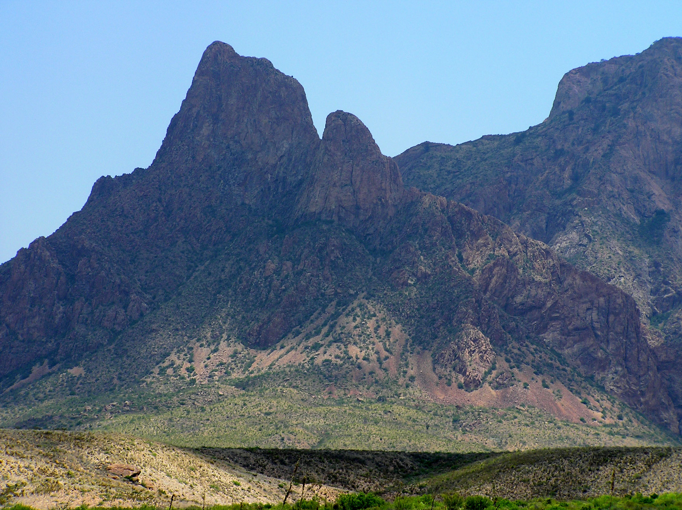 Location Big Bend National Park Description Sometimes considered "three parks in one," Big Bend includes mountain, desert, and river environments. An hour’s drive can take you from the banks of the Rio Grande to a mountain basin nearly a mile high. Here, you can explore one of the last remaining wild corners of the United States, and experience unmatched sights, sounds, and solitude.